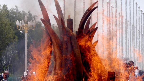 Ivory burn in Brazzaville, Republic of Congo on April 29, 2015